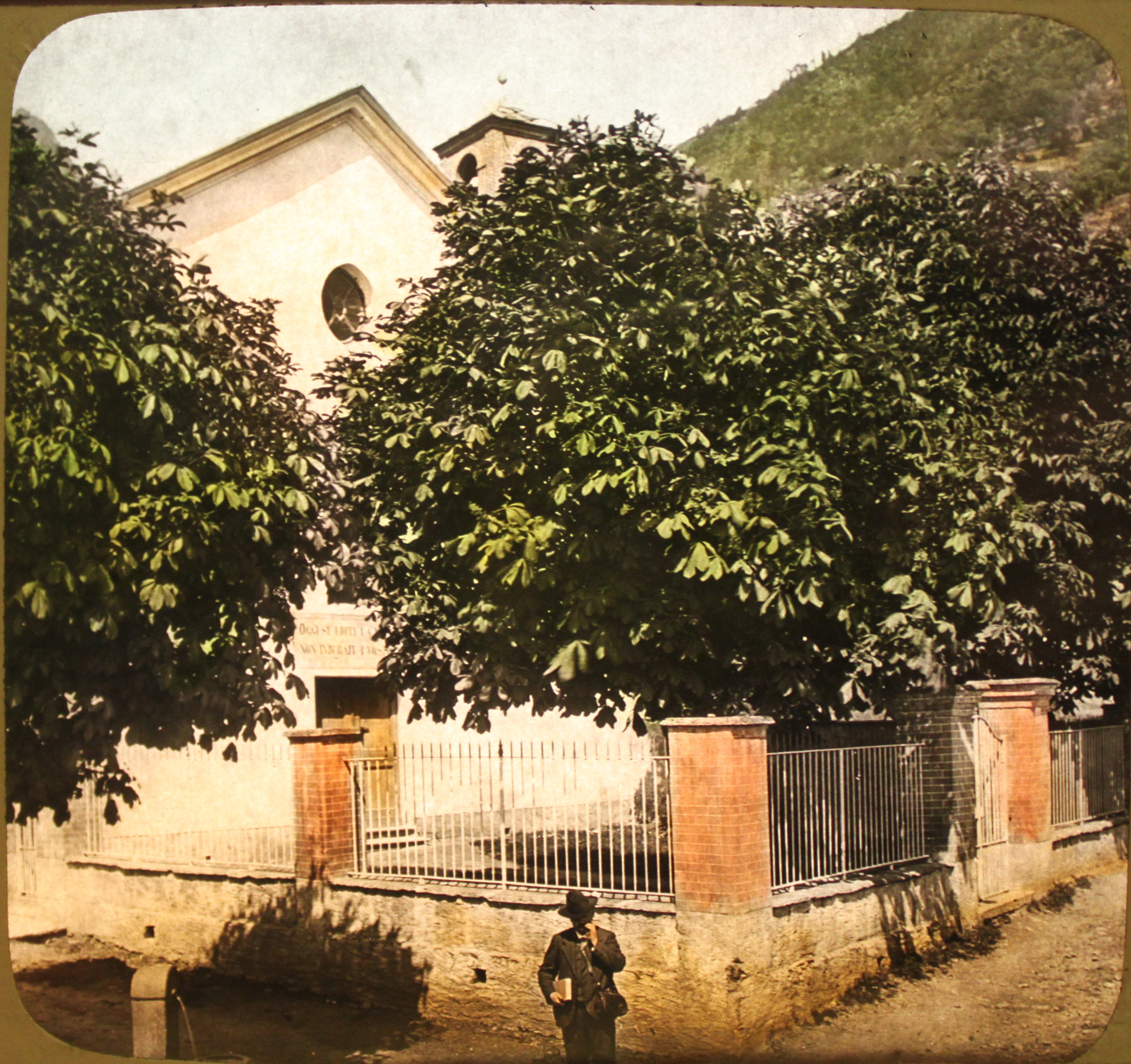 In the Waldensian Valleys, Italy. @1895. Keystone Glass Slide.